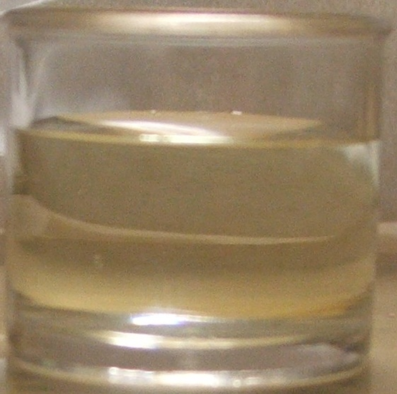 Sodium hypochlorite solution in small container